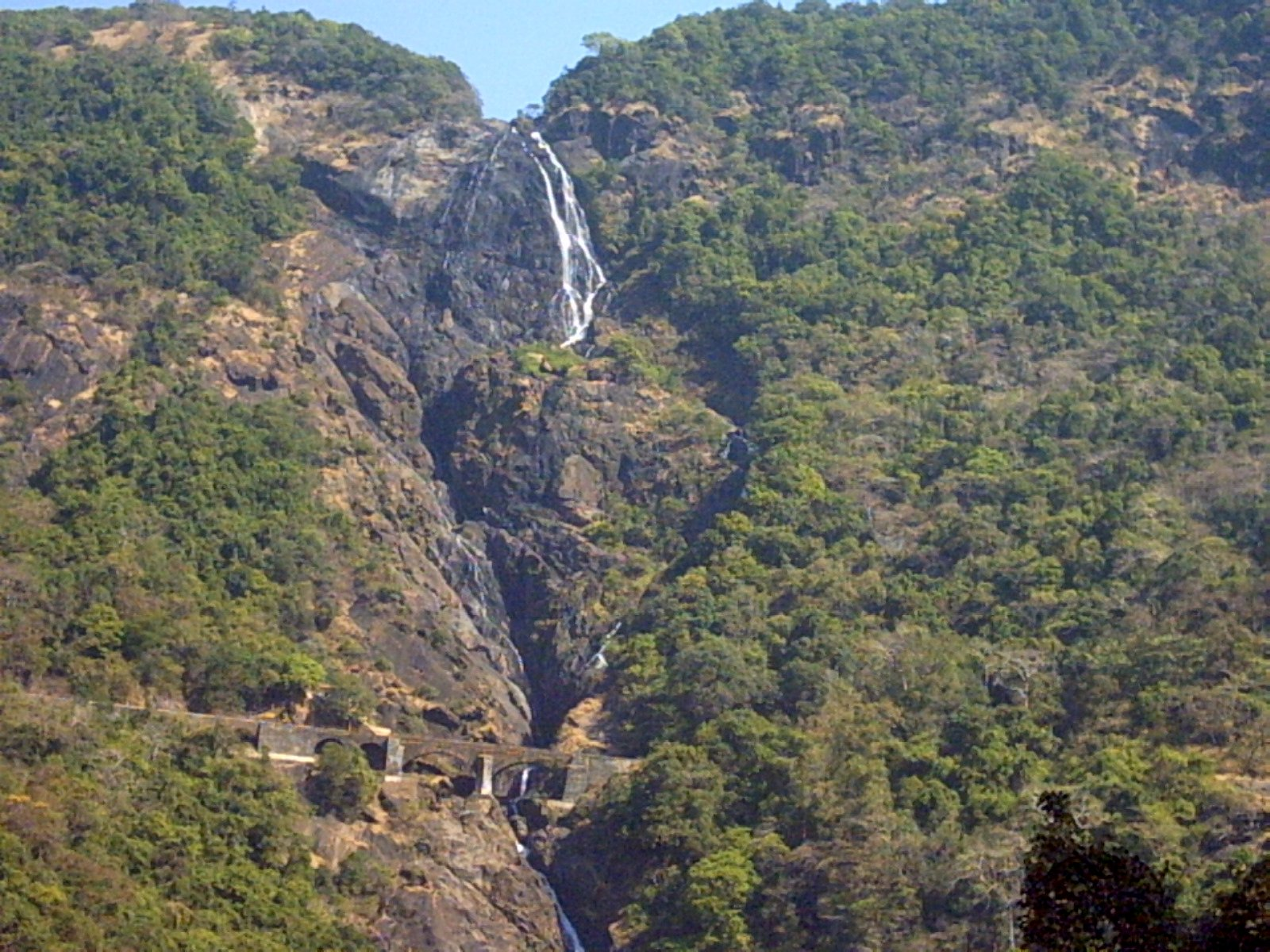 The majestic Dudhsagar falls...